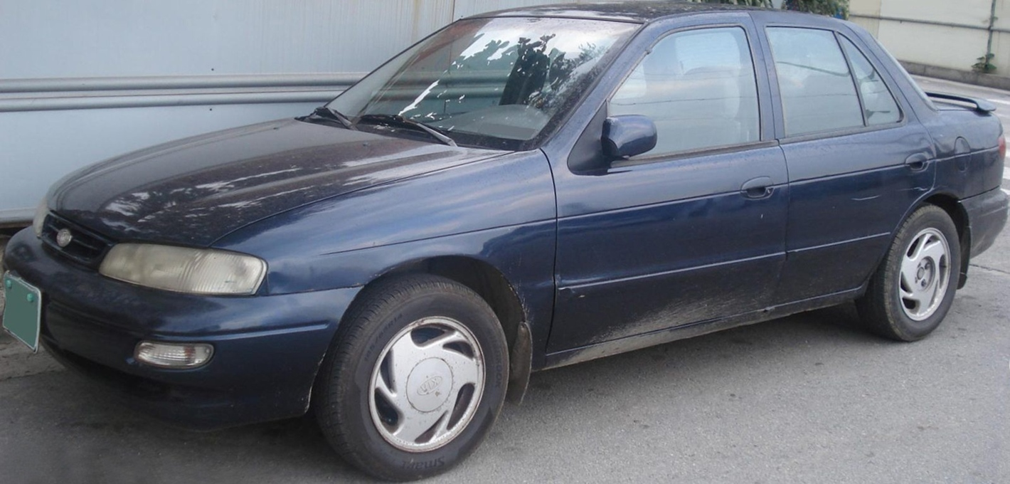 Kia New Sephia